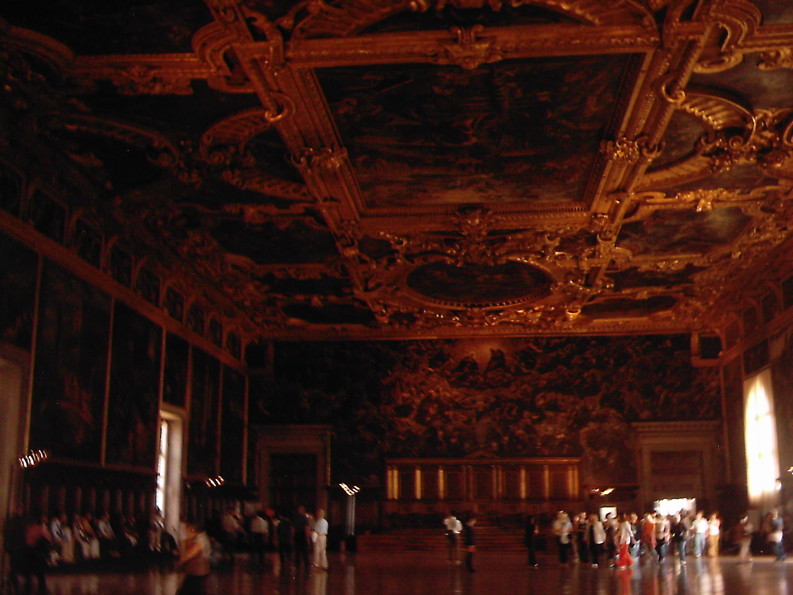 Room at the Palazzo Ducale/Doge's Palace, Venice